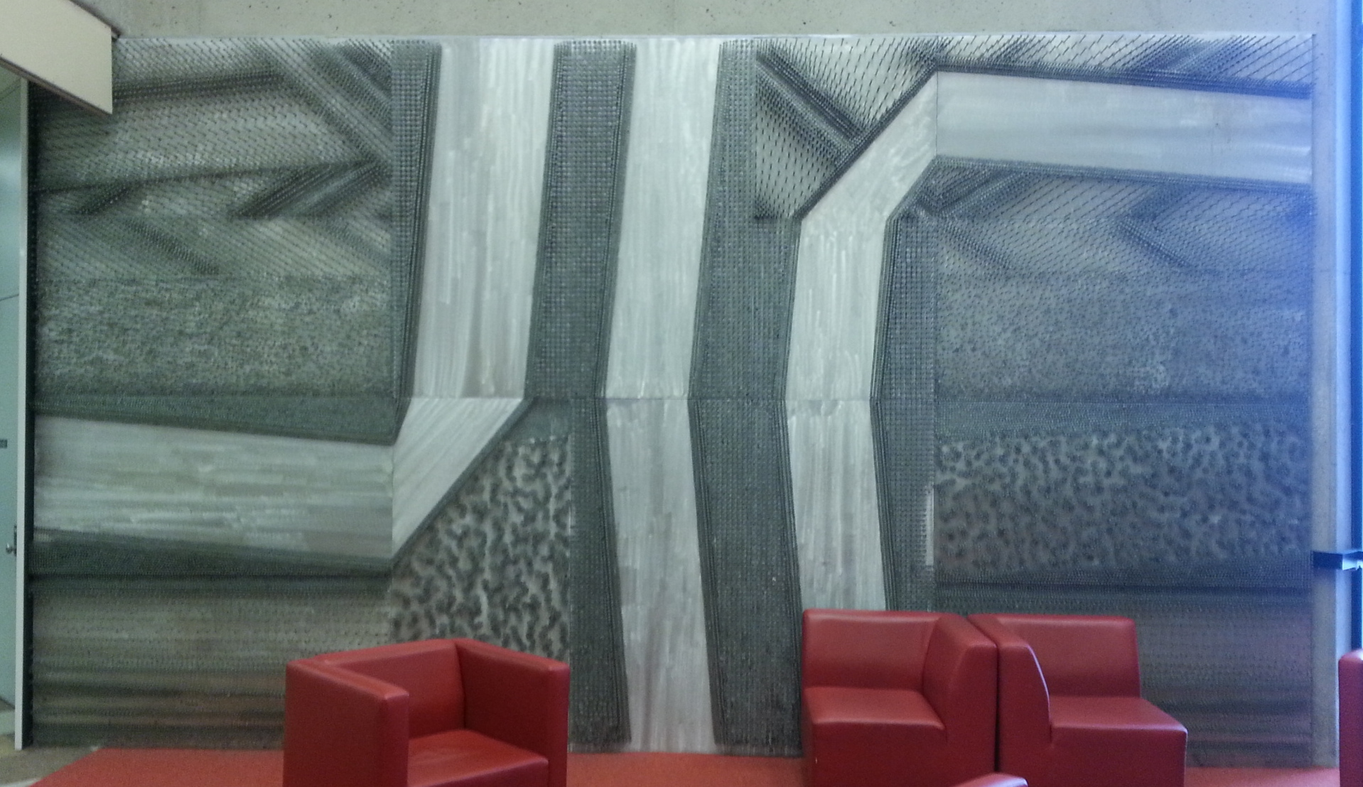 Photograph of David Partridge's naillie sculpture "Strata" (1969) in the Scott Library at York University in Toronto, ON. Media: aluminum sheathing over plywood, galvanized nails. Size: 671 x 366 cm.